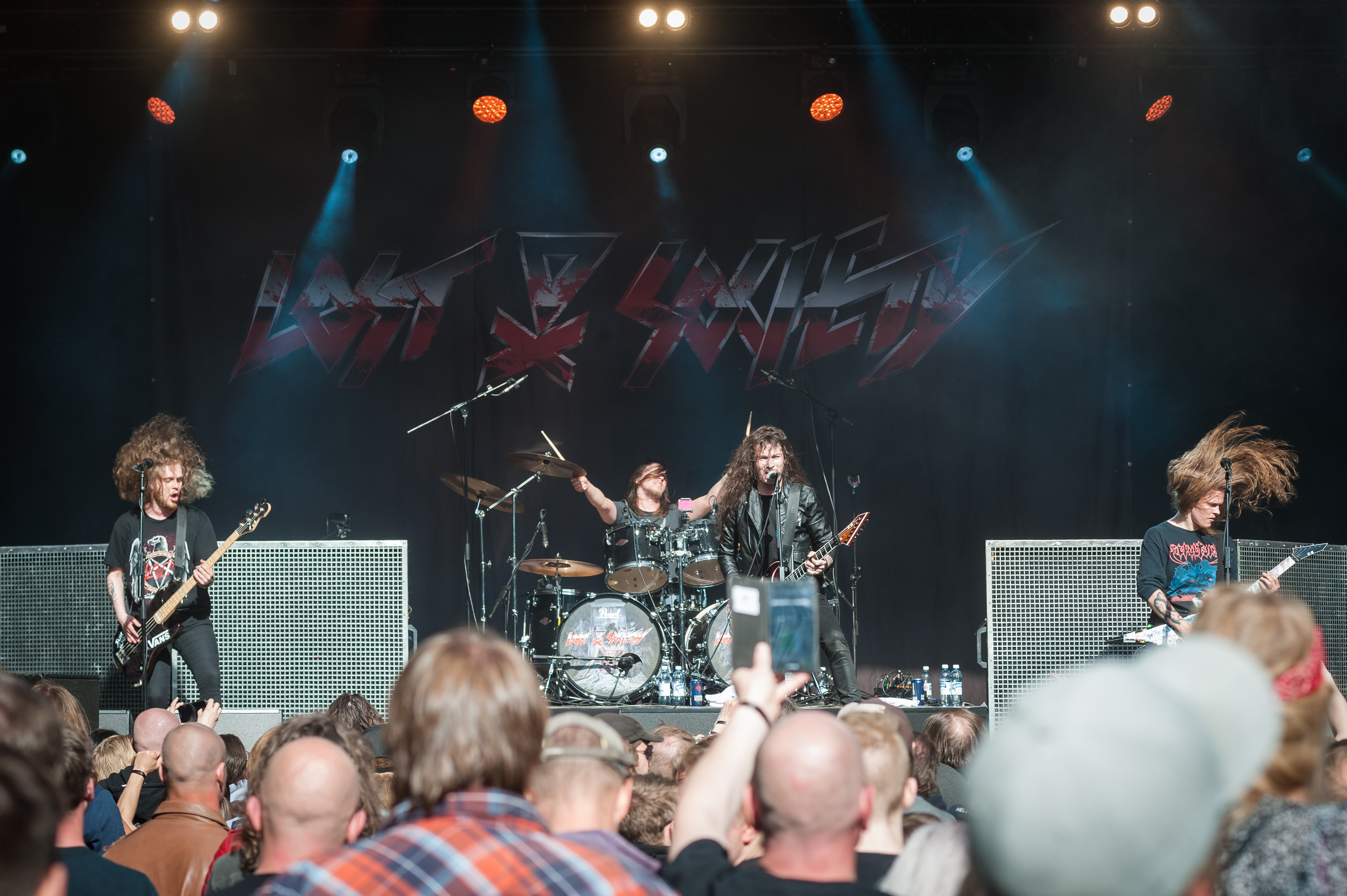 Finnish thrash metal band Lost Society performing at the 2018 South Park festival in Tampere, Finland.